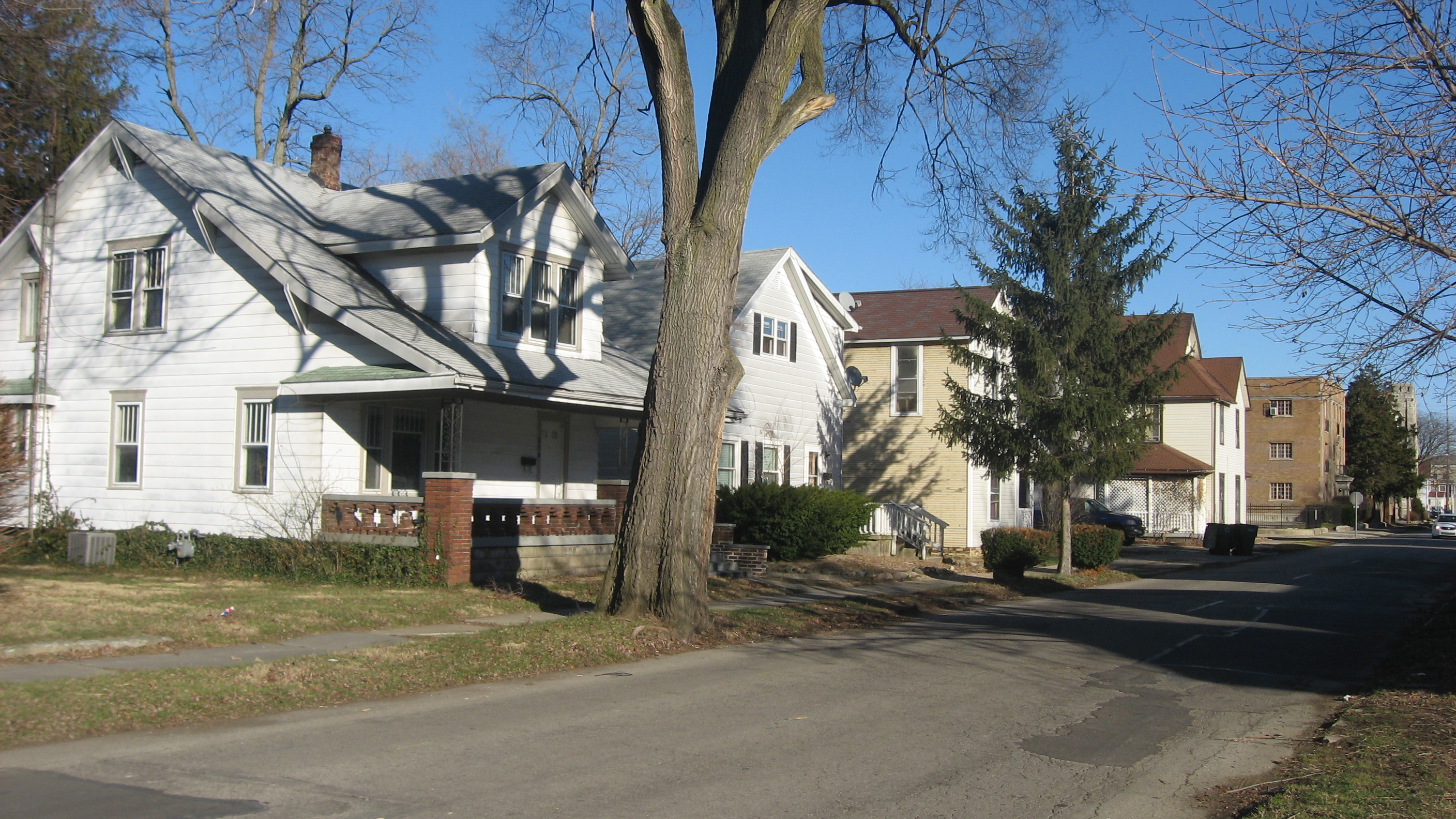 Houses on the northern side of the 600 block of W. Adams Street in Muncie, Indiana, United States. This block is part of the Old West End Historic District, a historic district that is listed on the National Register of Historic Places.